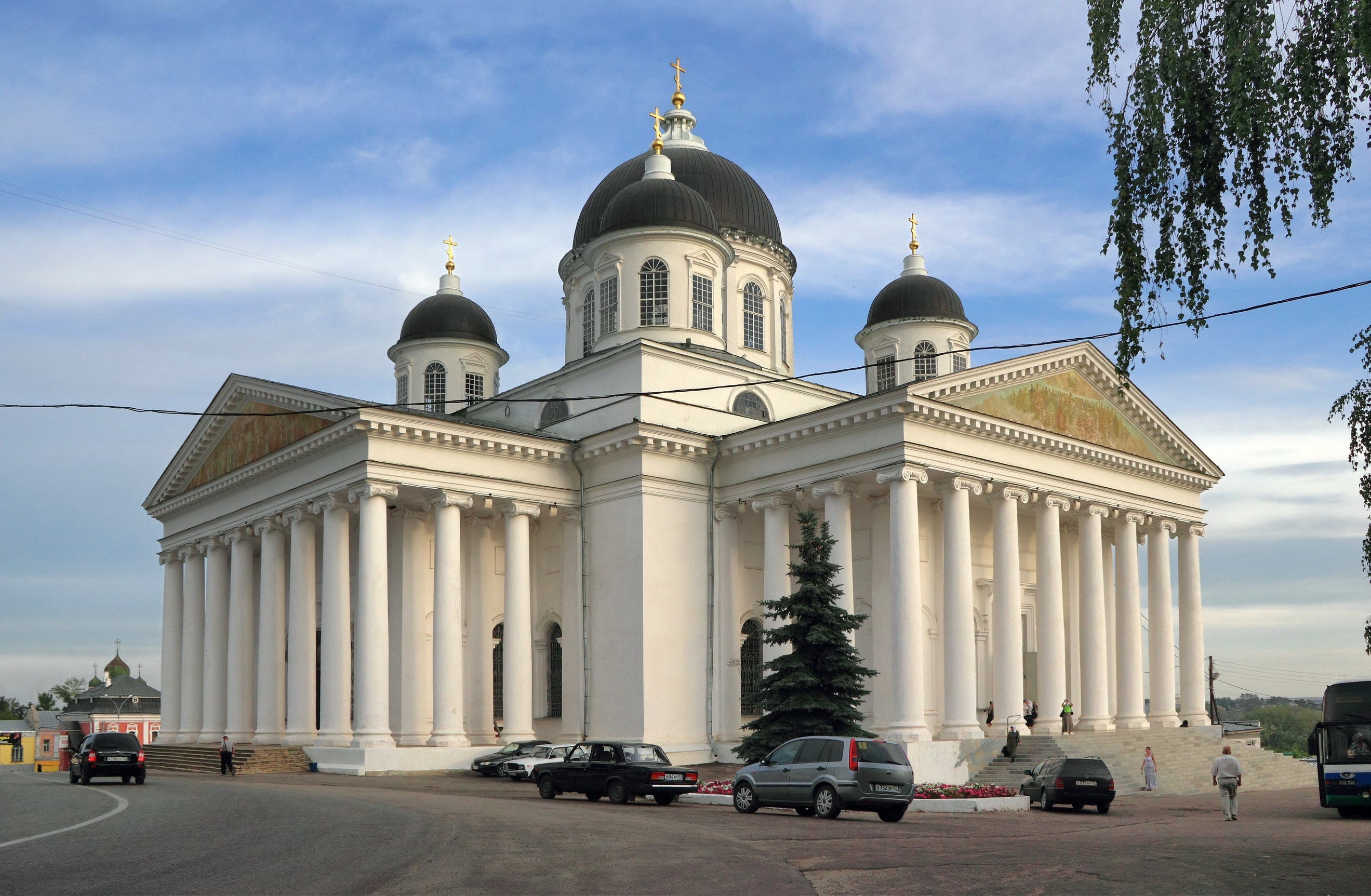 Arzamas. Resurrection Cathedral